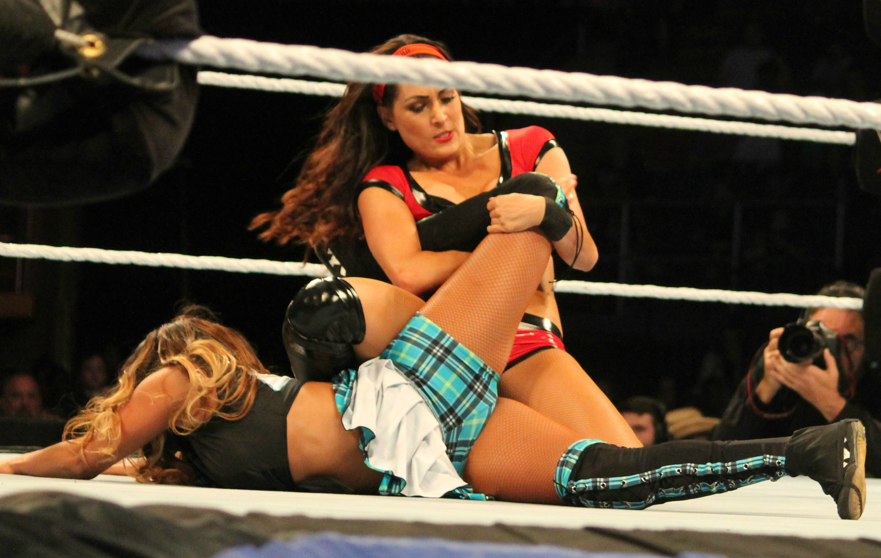 WWE Diva Brie Bella Applying a Single Leg Boston Crab on Cameron.